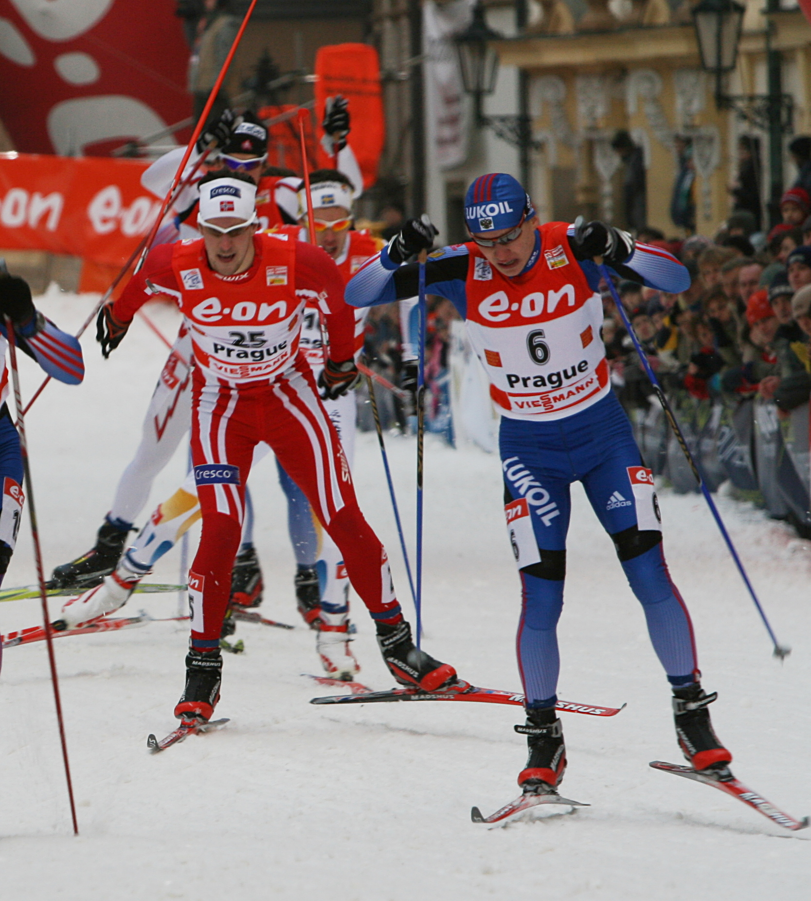 John Kristian Dahl (25) behind Andrey Parfenov (6) in the quaterfinals of Tour de Ski in Prague